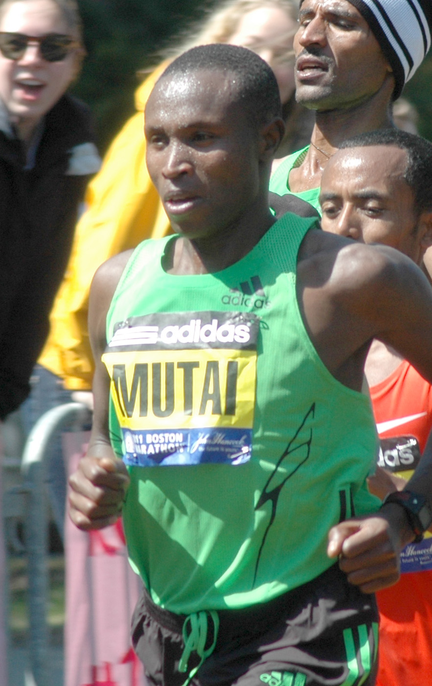 Geoffrey Mutai, winner of 2011 Boston Marathon passing near halfway point in front of Wellesley college scream tunnel.